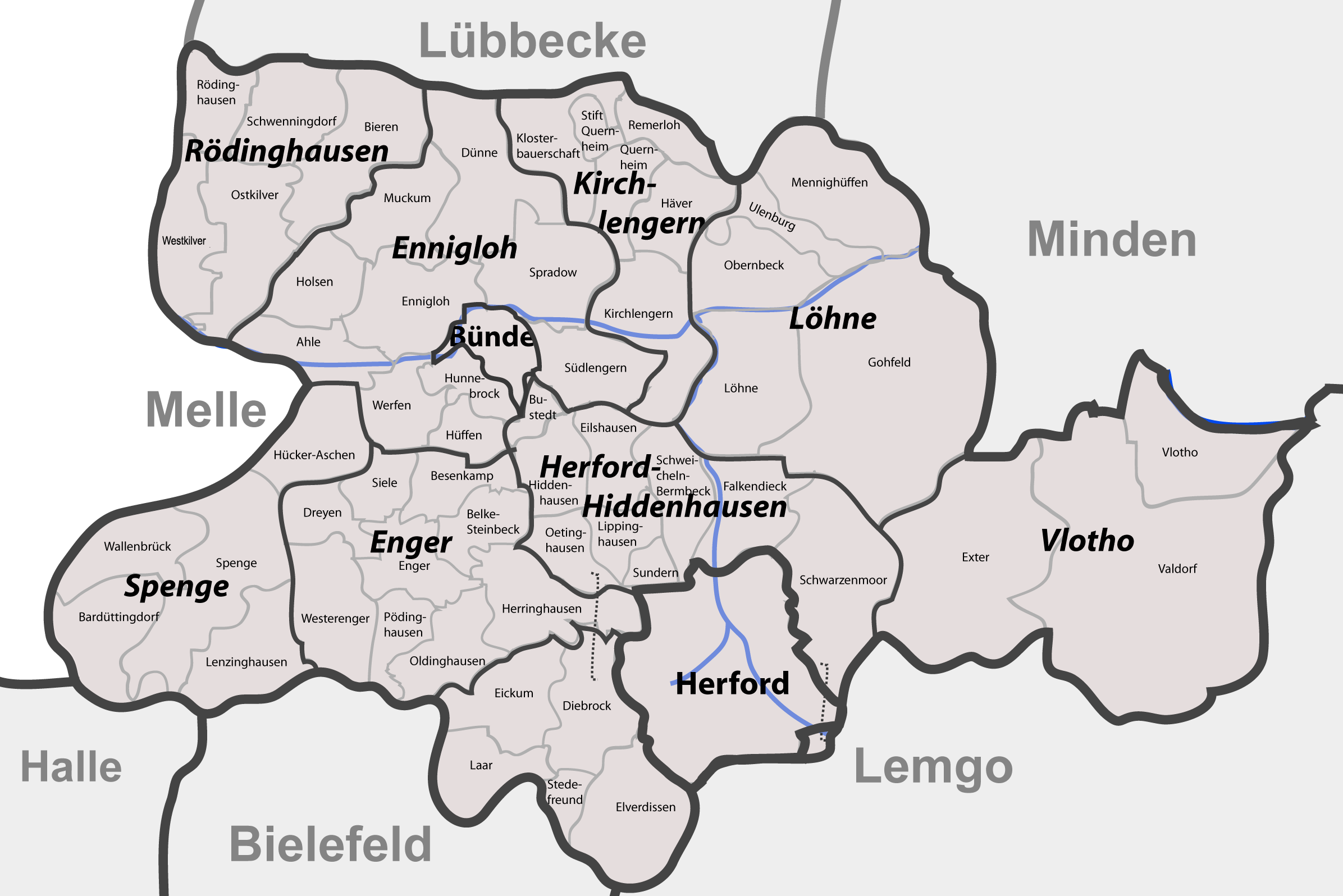 Districts (Ämter) and communities (Gemeinden, Städte) in rural and urban district of Herford as of 12-31-1968 before beeing reincorporated as a “new” district of Herford.